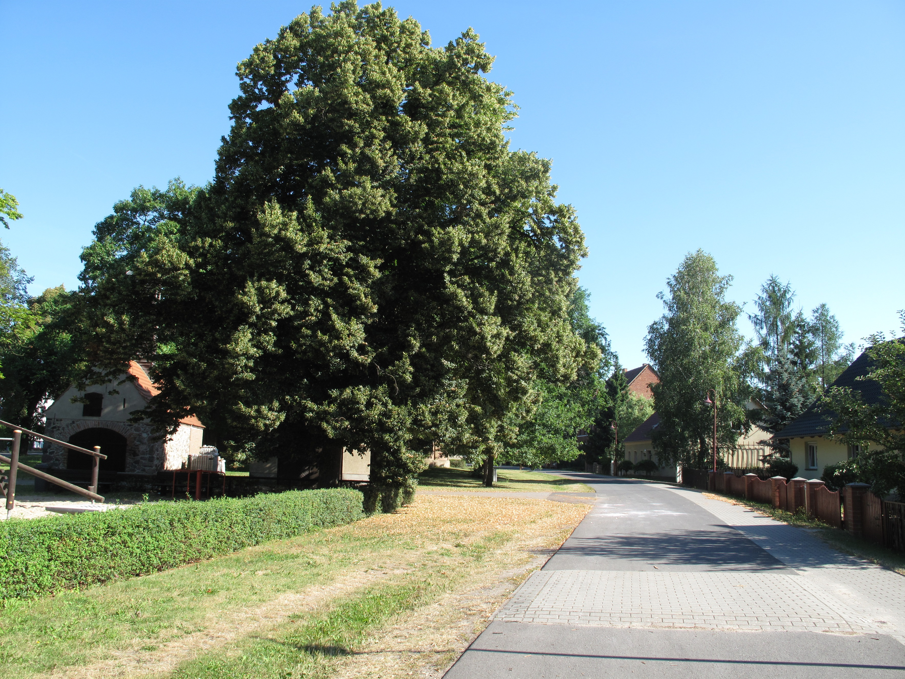 Village green in Selchow. The village Selchow is a part of the town Storkow, District Oder-Spree, Brandenburg, Germany. The village was first mentioned in 1321 and had on January 1, 2013 259 inhabitants.